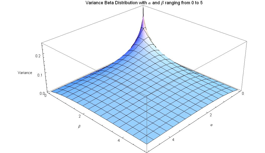 Variance for Beta Distribution for alpha and beta ranging from 0 to 5